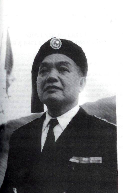 SA Deo Van Long Seigneur du Pays Taï